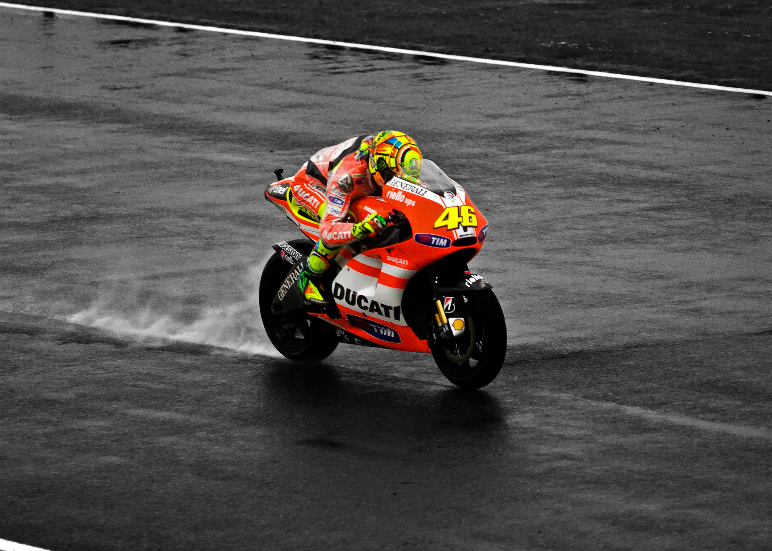 Italian motorcycle racer Valentino Rossi riding his Ducati Desmosedici at Silverstone Circuit during the 2011 British Grand Prix.